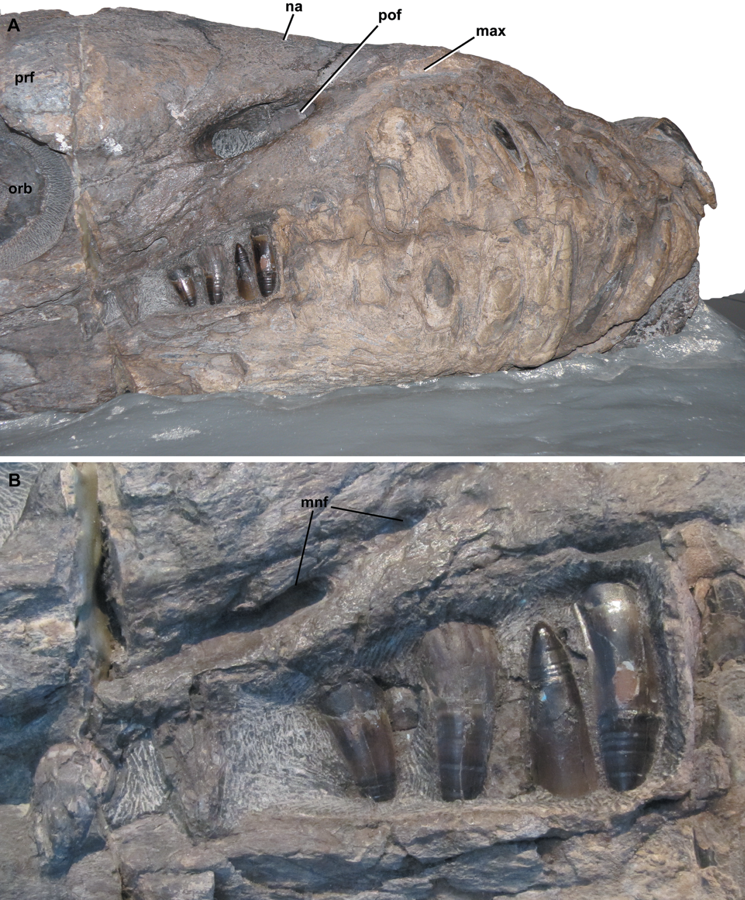 Dakosaurus andiniensis, referred specimen MOZ 6146P. Skull and mandible in, (A) lateral (right) view of the snout and (B) close-up on the posterior teeth, showing the interlocking dentition. Note the robust teeth and snout. Abbreviations: max, maxilla; mnf, maxillary neurovascular foramen; na, nasal; orb, orbit; pof, preorbital fenestra; prf, prefrontal.